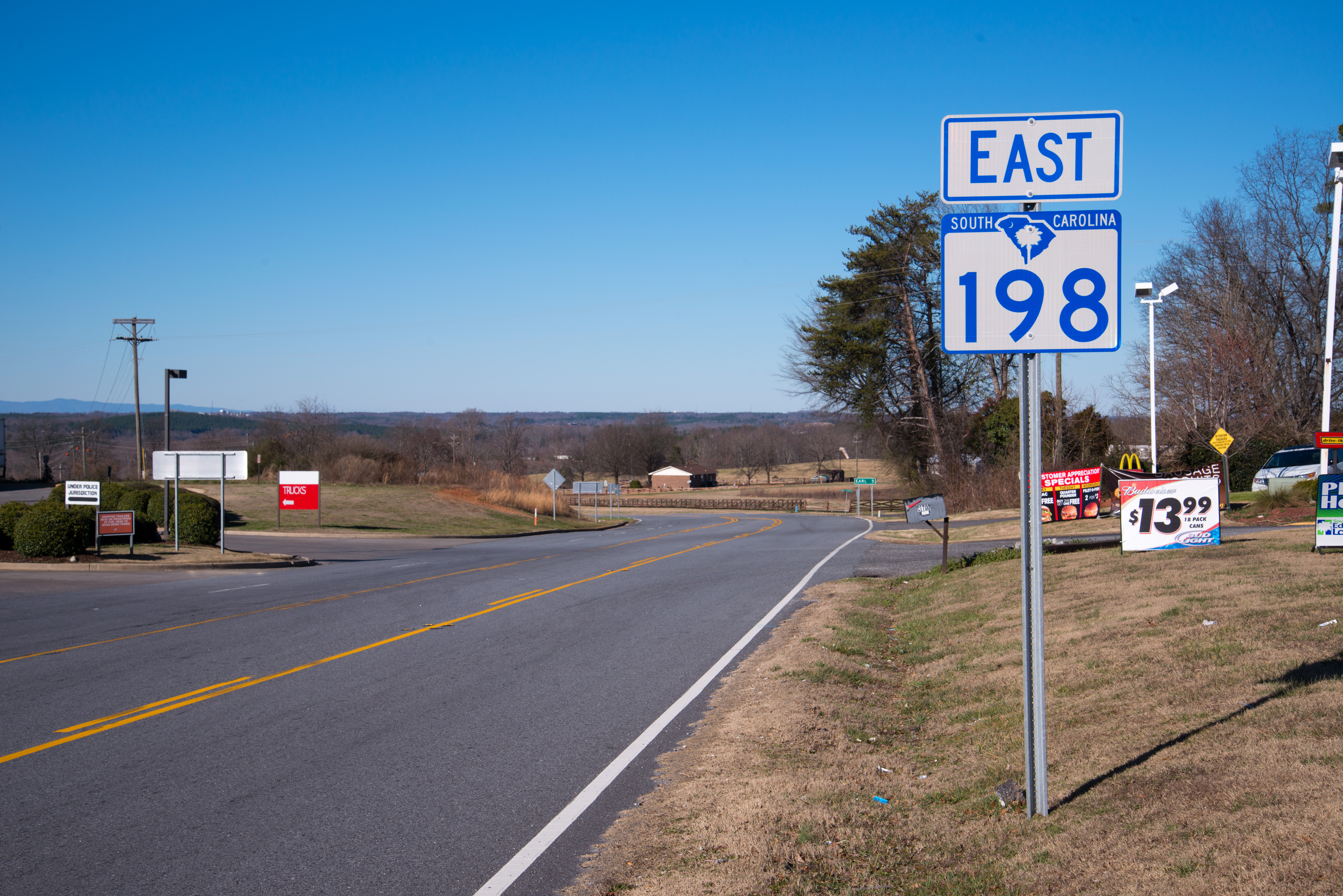 East SC 198, in Blacksburg, South Carolina, heading towards Earl, North Carolina.